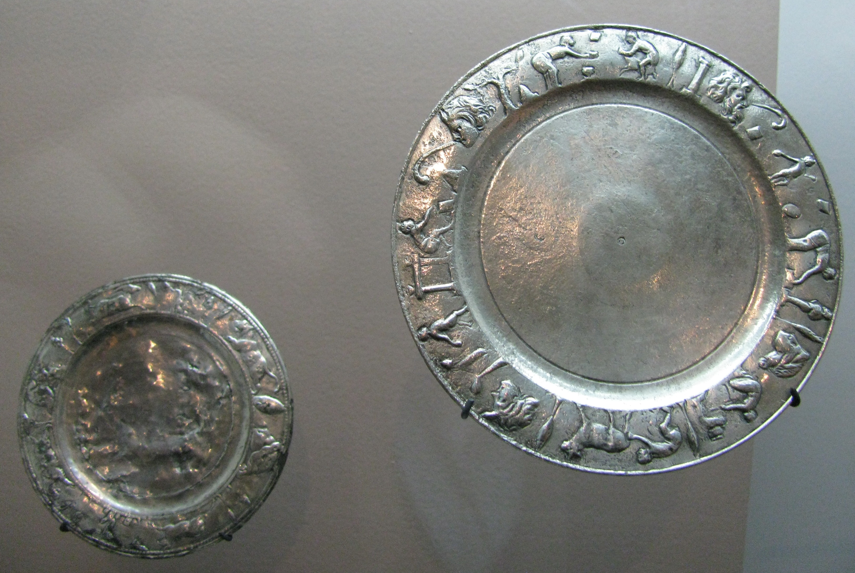 Two small silver plates, part of a treasure found in Vaise district of Lyon - gallo-roman museum of Lyon - France